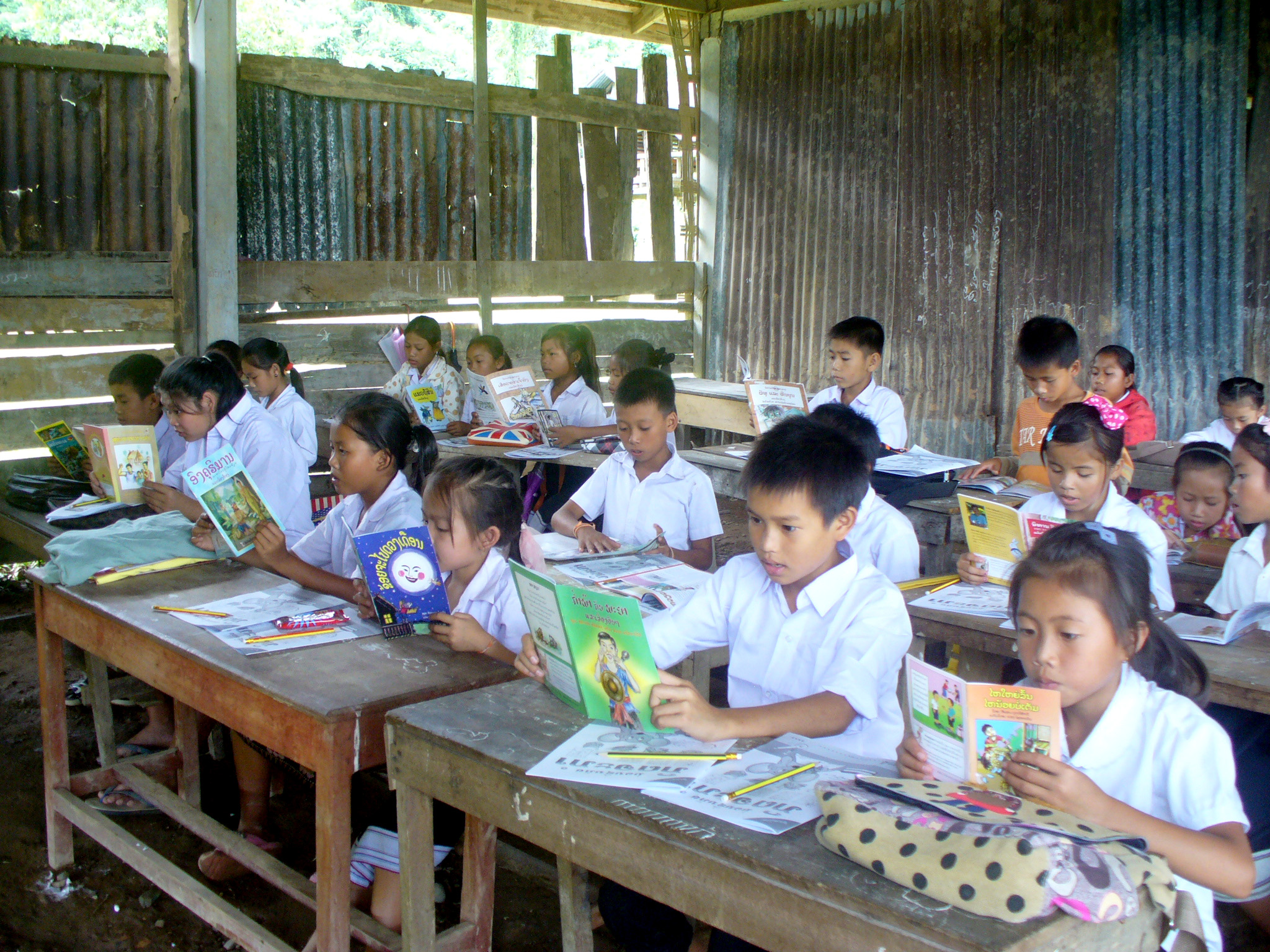 This primary school in Laos began a daily reading period in September 2013, to improve literacy skills. Even by grade 3 or 4, many children have difficulty reading a full sentence; this program marked the first time they read every day. The books were provided and the program was initiated by Big Brother Mouse, a literacy project, in cooperation with the Kasi District Department of Education.